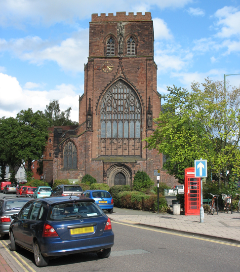 The Abbey in Shrewsbury